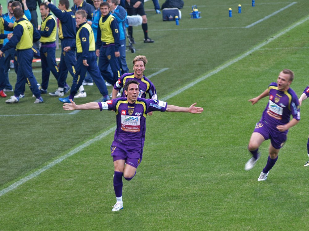 Ljudski vrt 2008 opening match